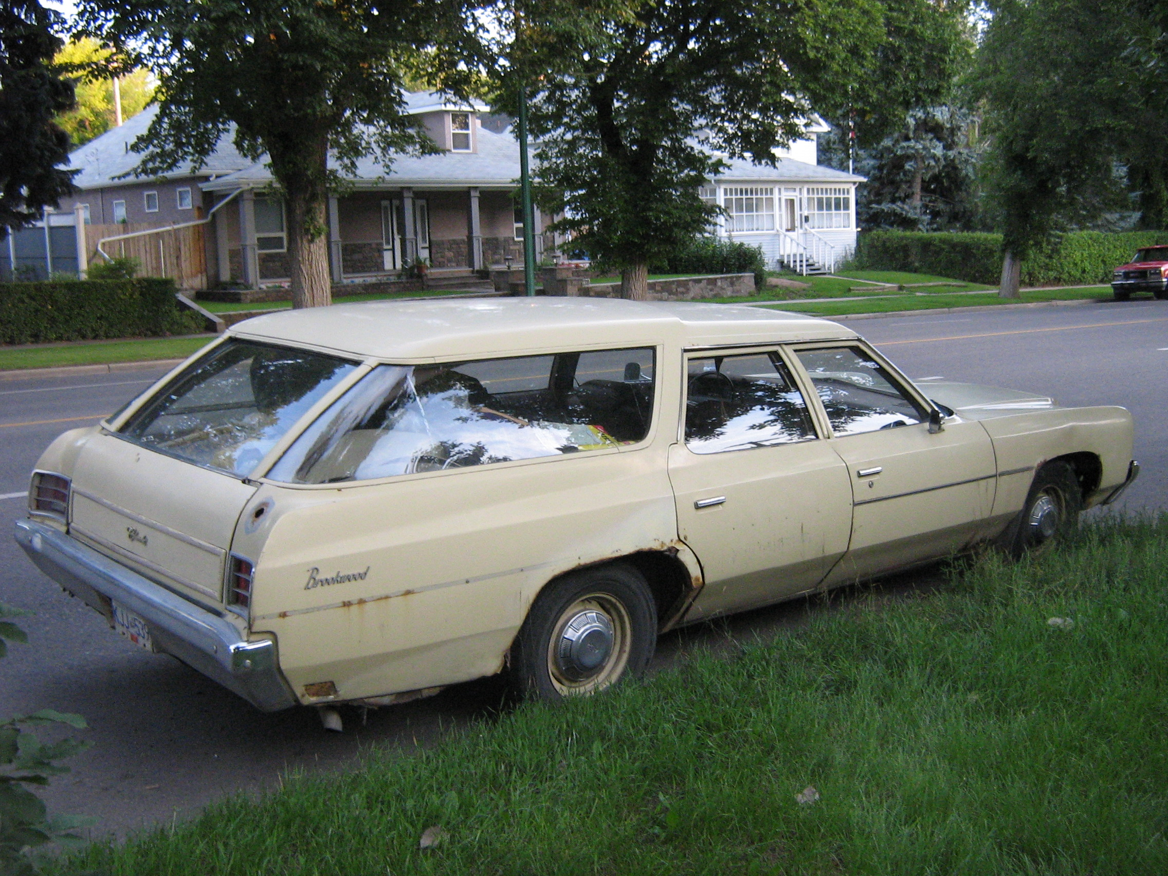 1972 Chevrolet Brookwood in Alberta, Canada